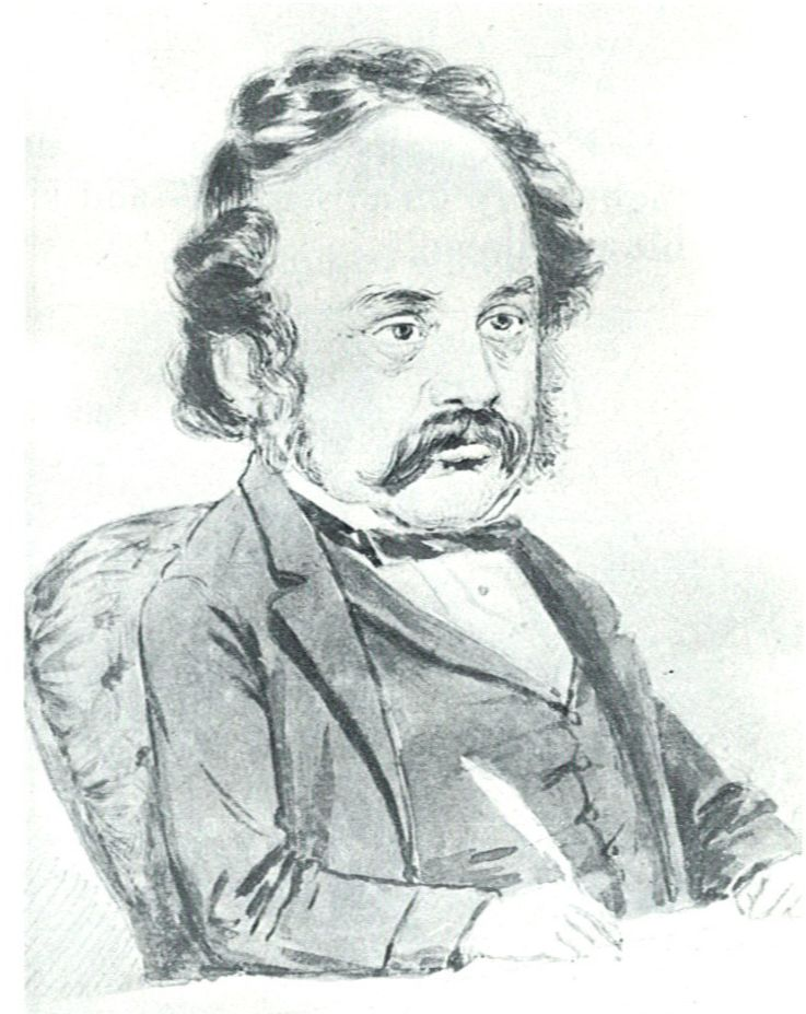 Caricature of Guise Brittan (original held by Canterbury Museum).